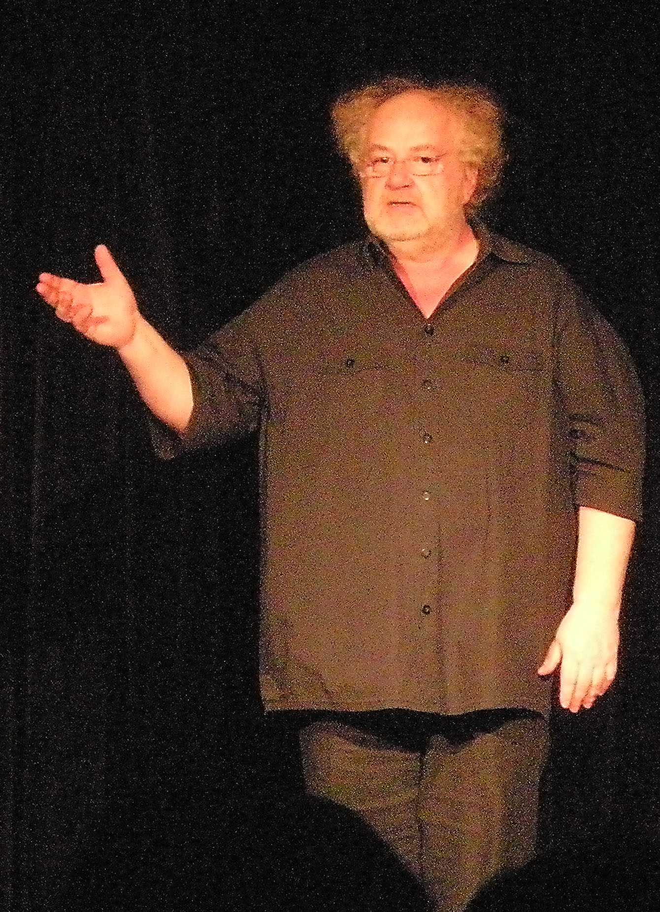 Austrian cabaretist/comedian "'I.Stangl'".